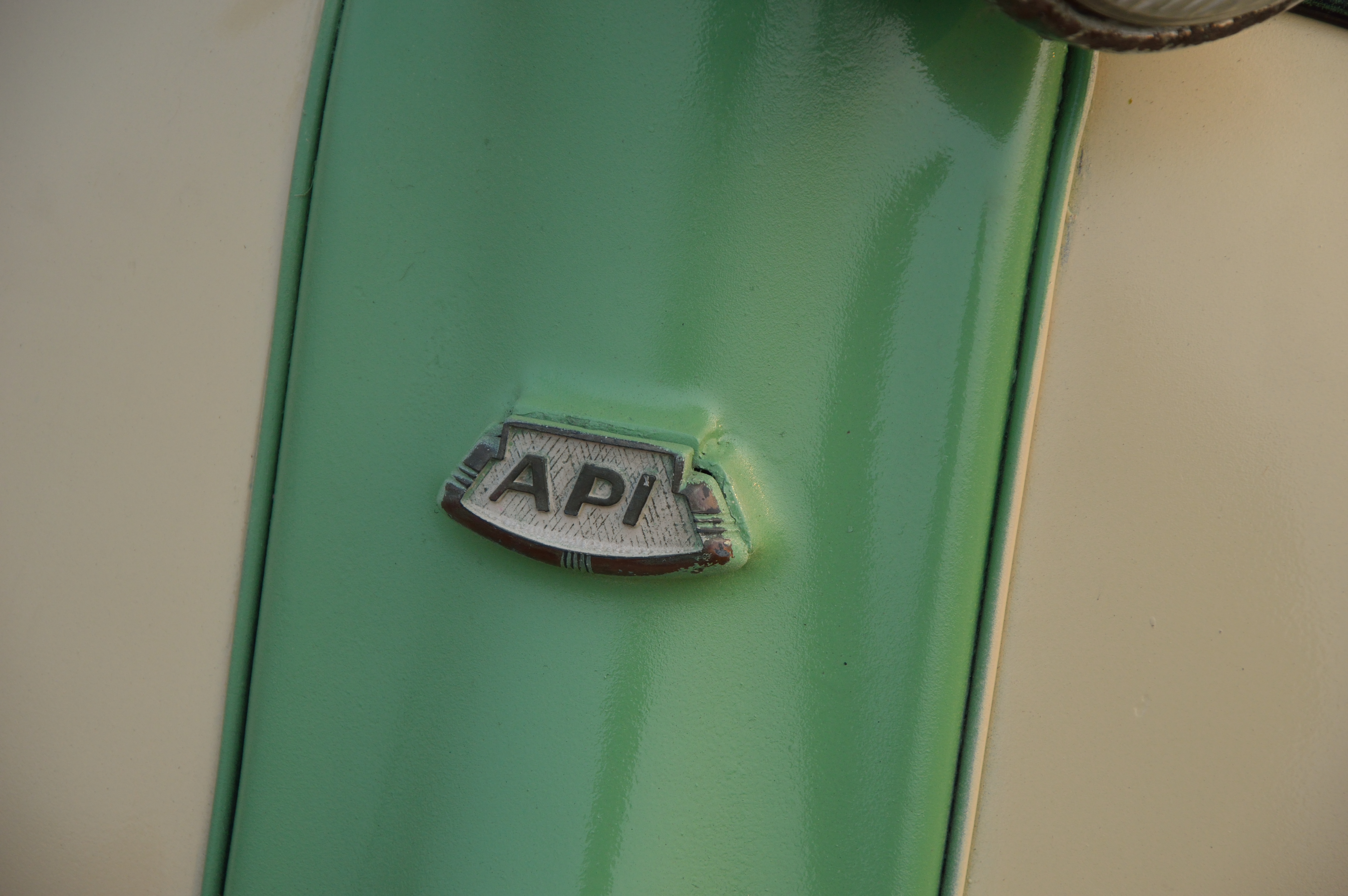 This classic two-wheeler was exhibited and ran during ‘The Statesman Vintage & Classic Car Rally 2013’ from the Eastern Command Sports Stadium of Fort William, Kolkata to the same via: Rabindra Sadan, Esplanade, Central avenue, Bhupen Bose avenue, Shaymbazaar five points crossing, APC Roy road, AGC Bose road Park Circus seven points, Gariahat flyover, Gol park, Rabindra Sarover, SP Mukherjee road, Hazra Road, Alipore road and Strand road, the route covers 31.32 km. The rally was held at chilled morning on 13 January 2013 at the ECS Stadium, where 170 entrants were participated with cars and bikes manufactured from 1906 to 1978. This one day festival takes place on the second Sunday of every January in Kolkata since 1968 with full of period costume and cultural period pieces.